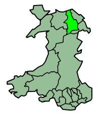 Denbighshire, one of the counties of Wales.